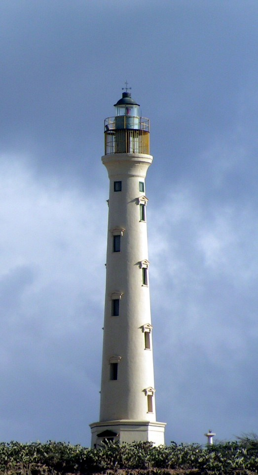 The California Lighthouse at Arashi Beach in Aruba.